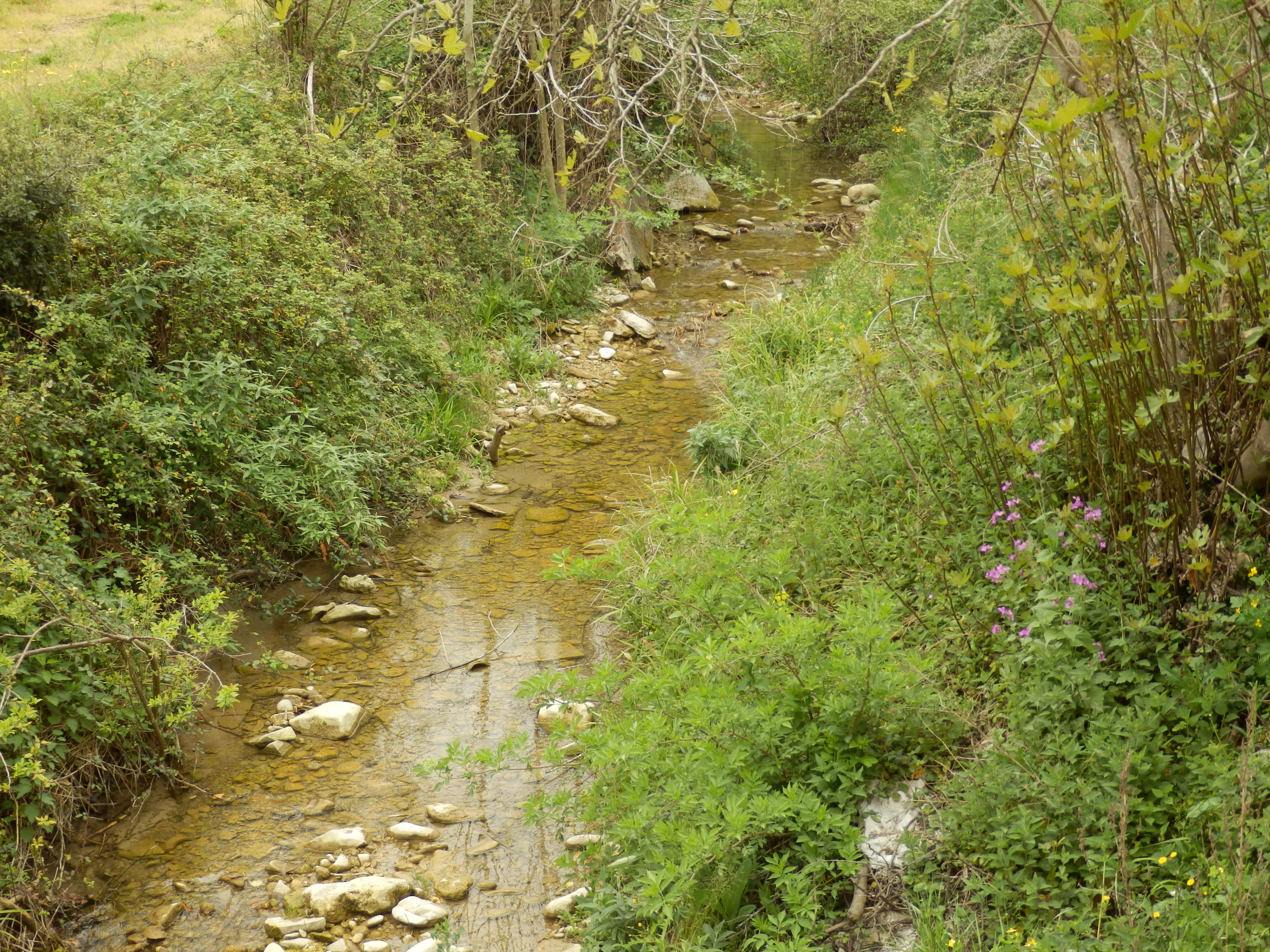 Ruisseau de la Piche in Saint-Couat-du-Razès, Aude, France